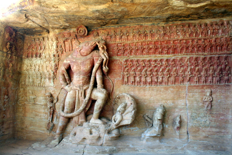 Caves No. 1 to 20 The Udayagiri Caves are an early Hindu ritual site located near Vidisha in the state of Madhya Pradesh, Northern India. They were extensively carved and reworked under the command of Candragupta II, Emperor of the Gupta Empire, in the late 4th and 5th century CE. One of India's most important archaeological sites from the Gupta period, it is currently a tourist site under the protection of the Archaeological Survey of India. Udayagiri consists of a substantial U-shaped plateau immediately next to the River Bes. Located a short distance from the earthen ramparts of ancient Besnagar, Udayagiri is about 4 km from the modern town of Vidisha and about 13 km from the Buddhist site of Sanchi.[1] Udayagiri is best known for a series of rock-cut sanctuaries and images excavated into hillside in the early years of the fifth century CE. The most famous sculpture is the monumental figure of Viṣṇu in his incarnation as the boar-headed Varaha. The site has important inscriptions of the Gupta dynasty belonging to the reigns of Chandragupta I (c. 375-415) and Kumaragupta I (c. 415-55).[2] In addition to these remains, Udayagiri has a series of rock-shelters and petroglyphs, ruined buildings, inscriptions, water systems, fortifications and habitation mounds, all of which have been only partially investigated.